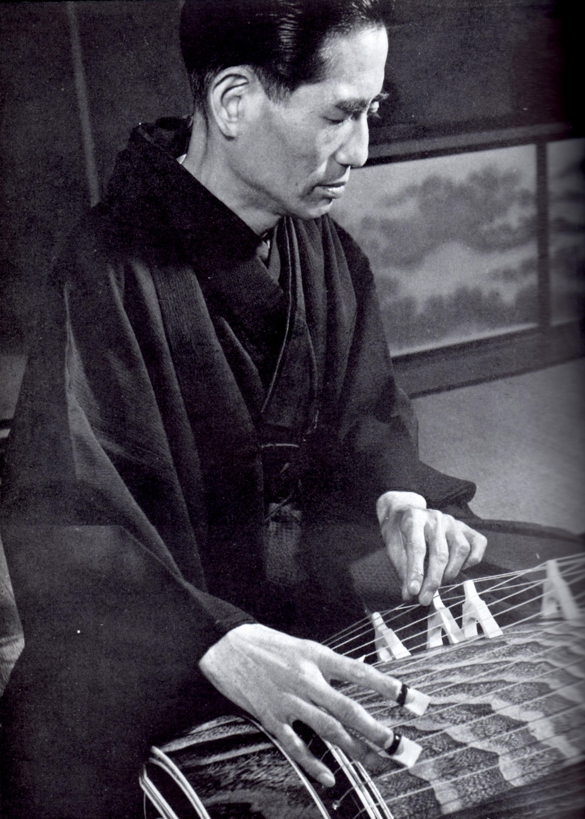 Japanese Jiuta, So player, and composer, Miyagi Michio (1894-1956)